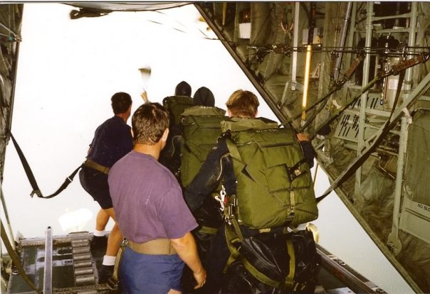 SBS sea para jump